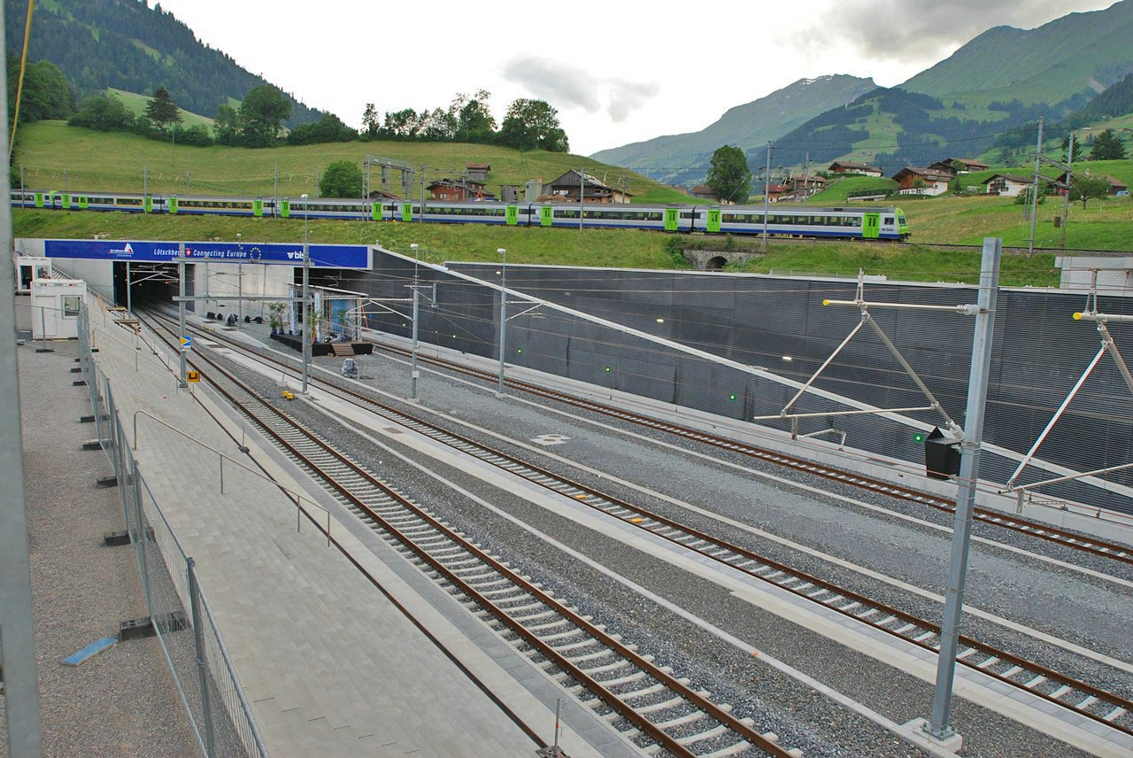 North portal of new Loetschberg Base Tunnel (LBT) in Frutigen, Canton Berne; LBT is part of the swiss Alptransit project. A BLS train on the old mountain track in the background. Right before the tunnel entrance is the so called intervention site. The idea is that trains which are on fire must not stop inside the tunnel but leave the tube if possible and evacuate people here. That's what the stairs are intended for. Firefighter access is provided from the other side. Picture replaced with actual photo, old photo was not worth to be kept. The stage between the tracks was used for the opening ceremony and will be removed.